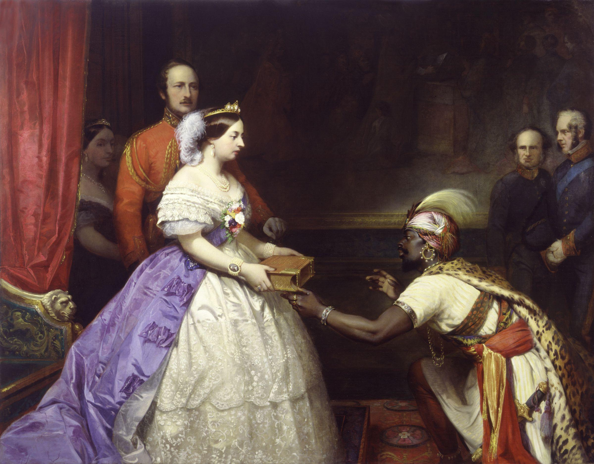 The Secret of England's Greatness (Queen Victoria presenting a Bible in the Audience Chamber at Windsor), by Thomas Jones Barker (died 1882). All images in this batch have been confirmed as author died before 1939 according to the official death date listed by the NPG.